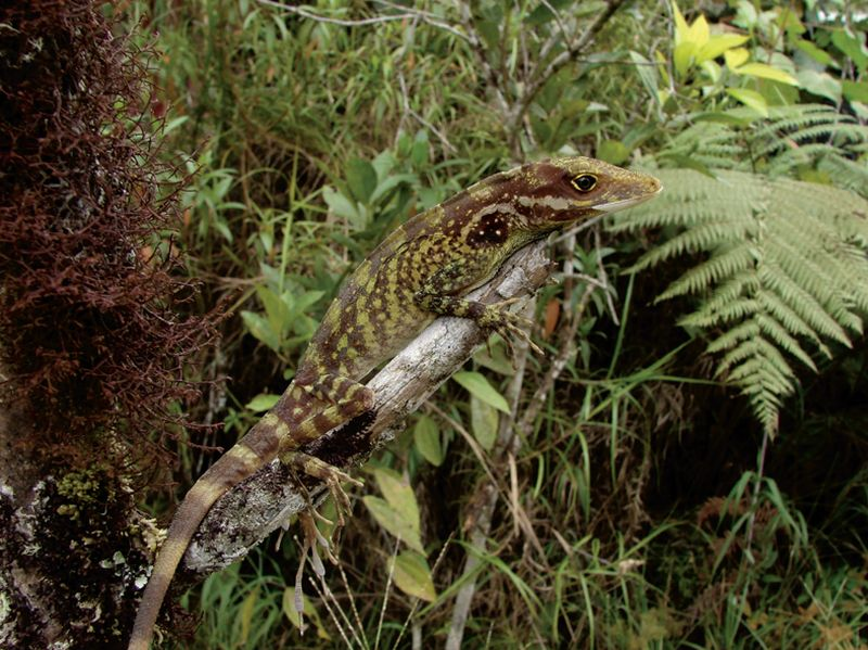 Anolis podocarpus, male (EPN 11355).